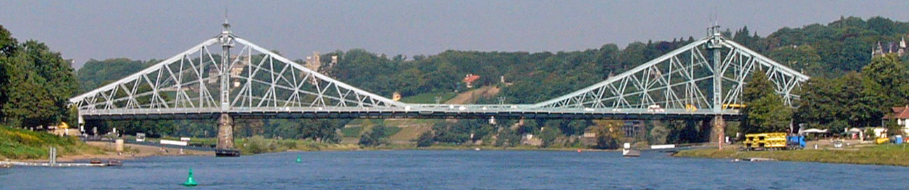 Bridge in Dresden - Blaues Wunder.